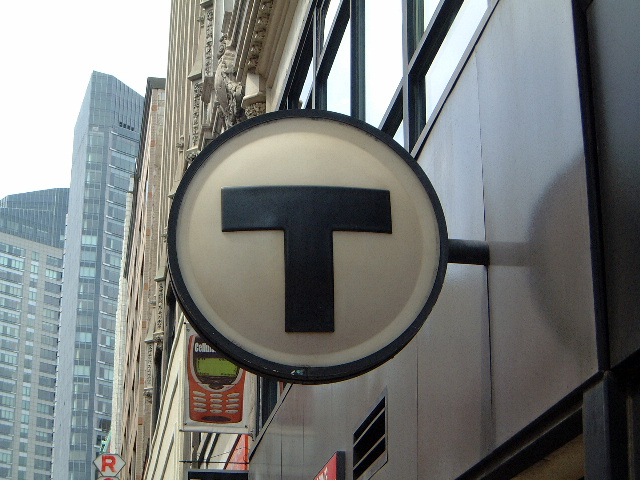 MBTA "T" logo above the entrance to Downtown Crossing station on Washington Street at Winter Street, seen in July 2006